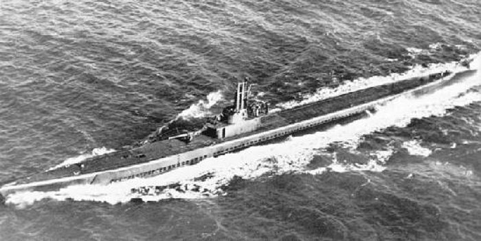 USS Flasher; Port side view of the Flasher (SS-249) underway, circa 1943-45. USN photo courtesy of .